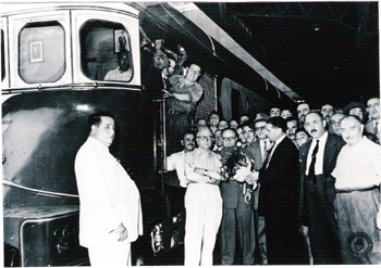 MC1 Justicialista, Inauguratión.